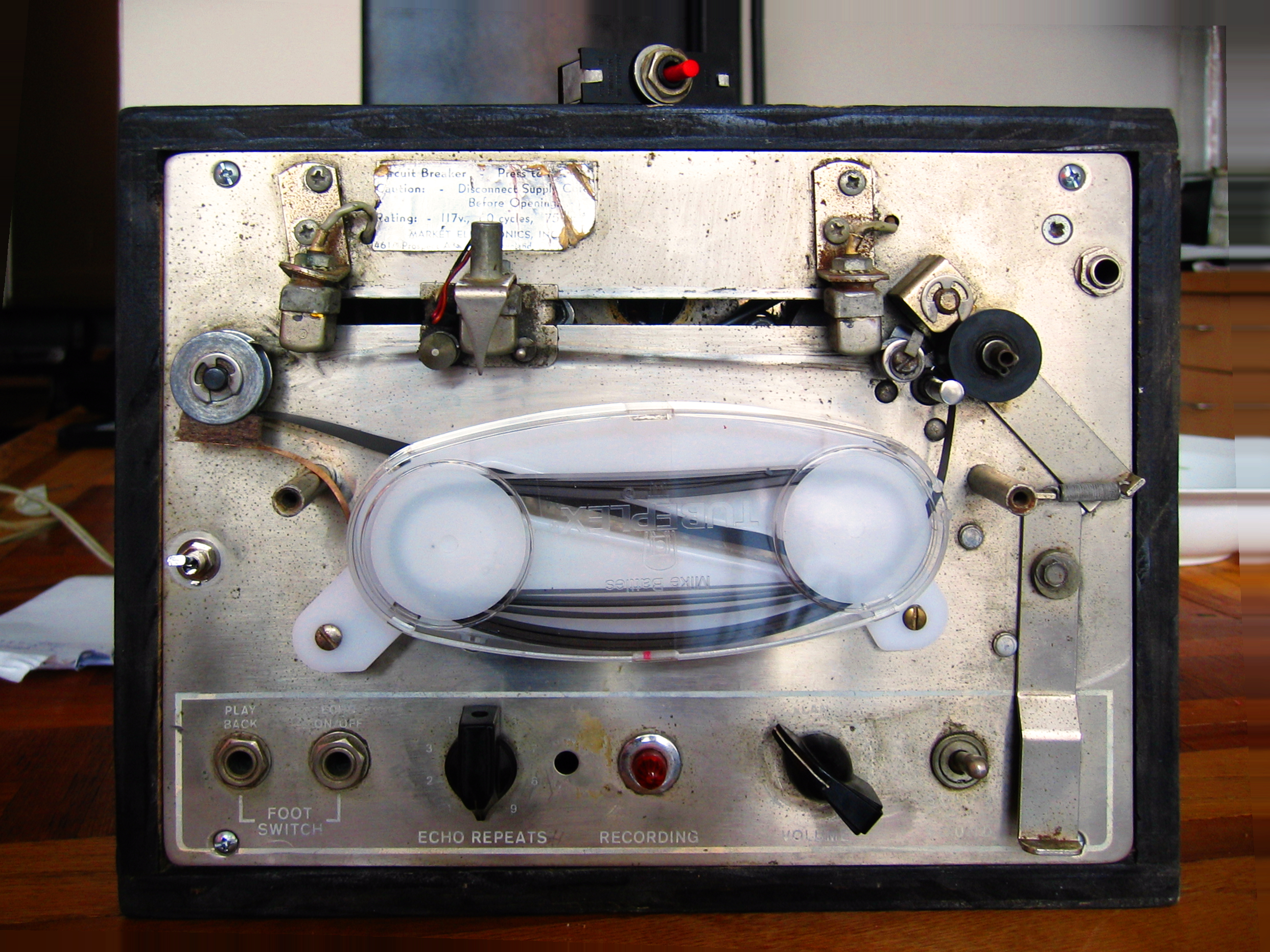 Maestro Echoplex EP-2 Tube Tape Echo My late model EP-2, with Sound-On-Sound. story @ Flickr Tags: echoplex tape echo tape echo delay tubes tube ep-2 mike battle effects gear sound on sound RECORD PLAYBACK ERASE chickenheads. from Flickr album "ordering moo cards" by evan p. cordes